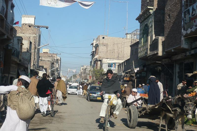 The streetlife of Bannu.